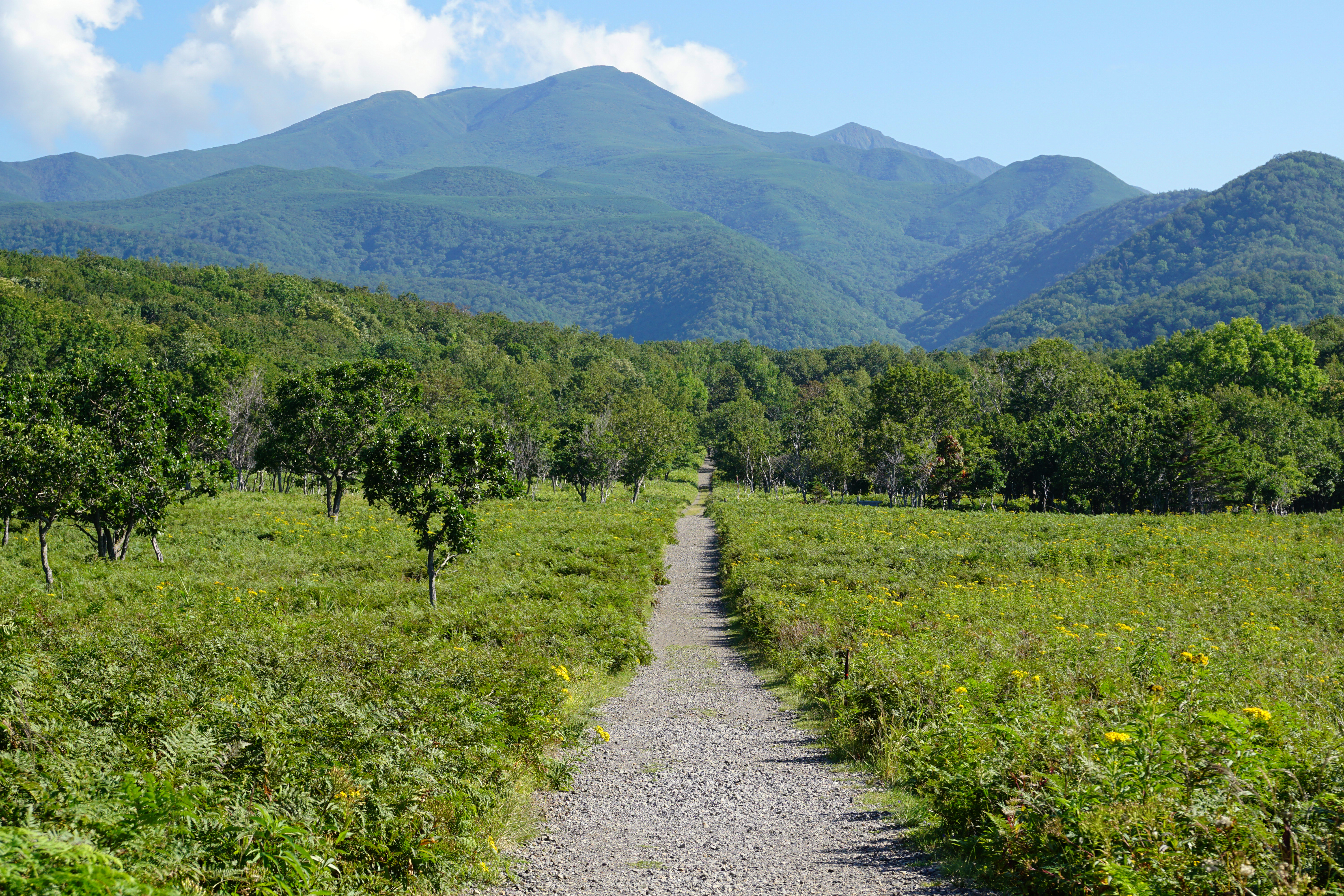 At "Track Near Furepe Falls" in Shari, Hokkaido prefecture, Japan. Furepe Falls and its circumference was registered as part of the UNESCO World Heritage Site "Shiretoko". Mount Chinishibetsu in the background.